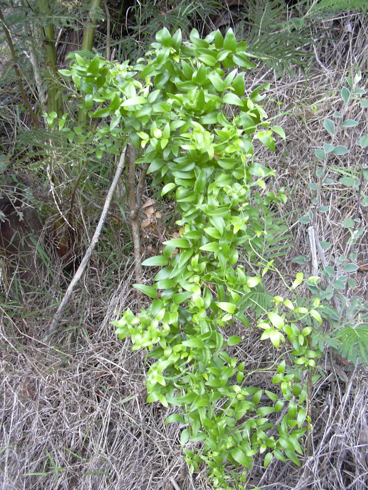 Asparagus asparagoides (habit). Location: Maui, Kula